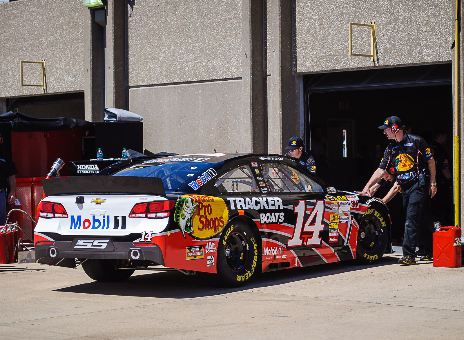 Tony Stewart's No. 14 Chevrolet in the garage during practice for the 2013 NRA 500 at Texas Motor Speedway.